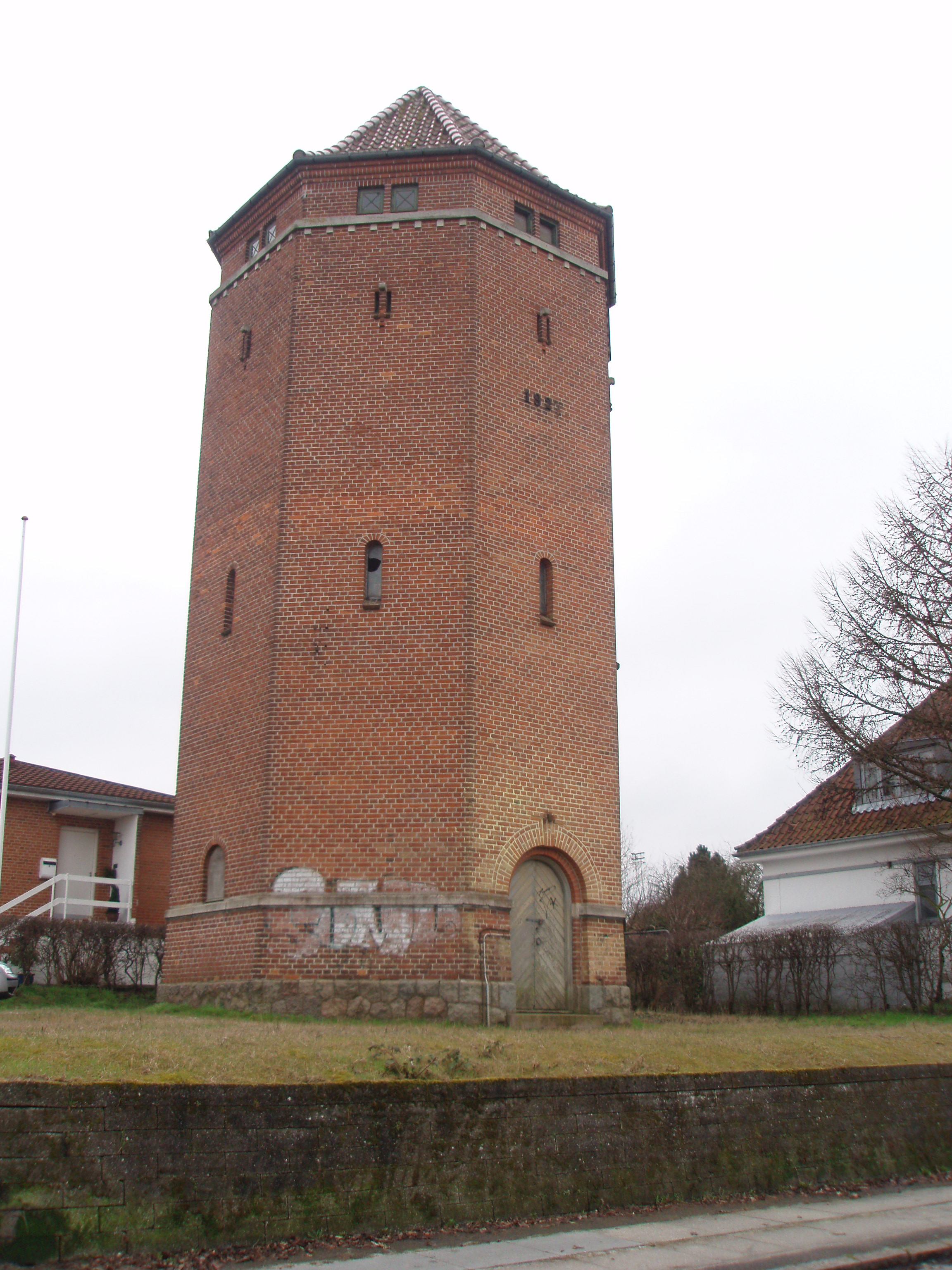 The water tower on Terp Skovvej in Viby J.